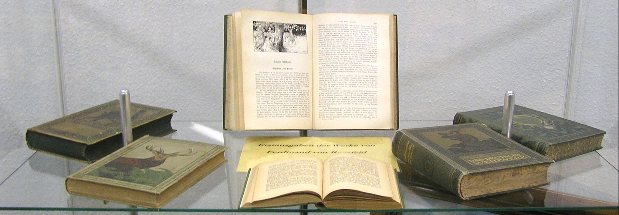 first editions of Ferdinand von Raesfelds books